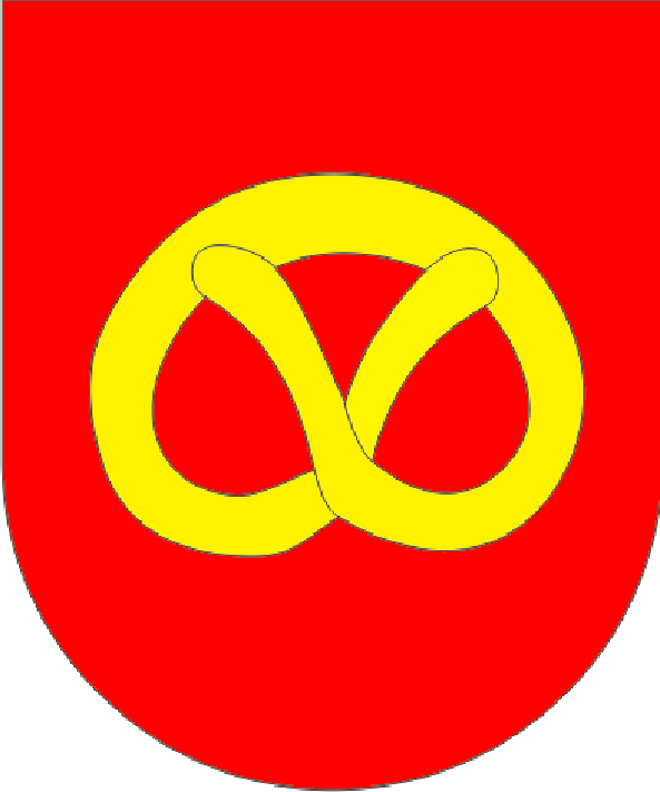 coats of arms of the lordship of Bretzenheim